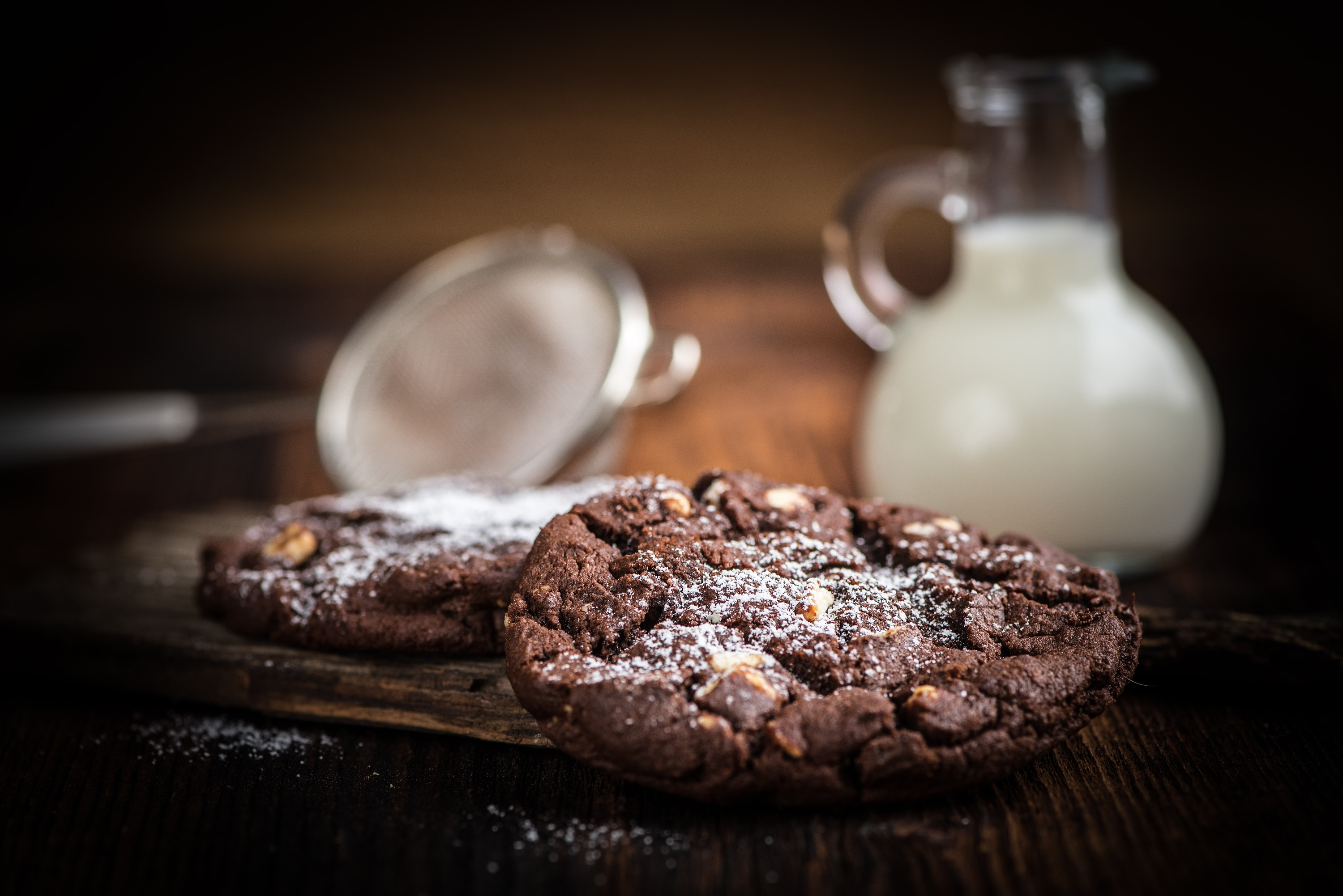 Baked chocolate chip cookie with chocolate dough